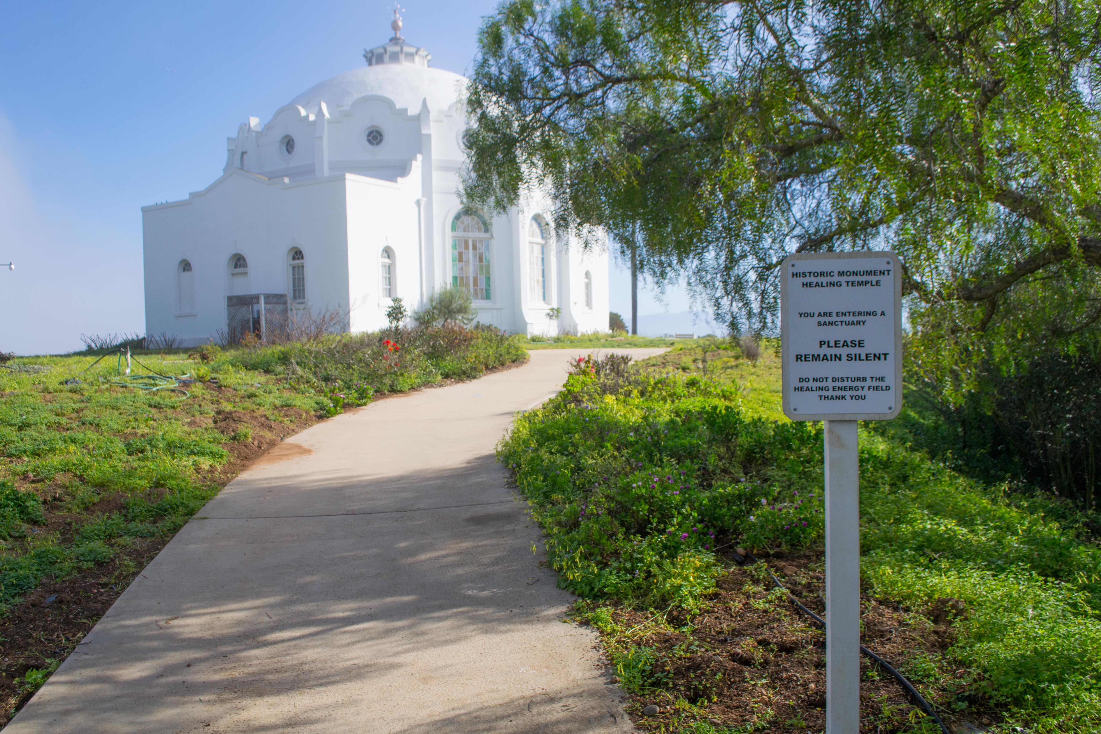 Mt. Ecclesia